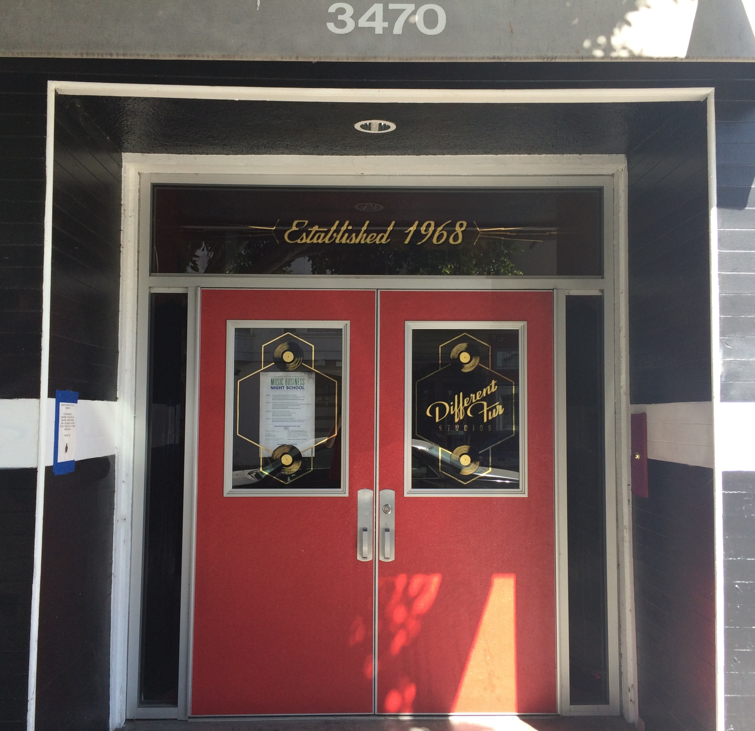 Different Fur Studios, a recording studio on 19th Street in the Mission District of San Francisco